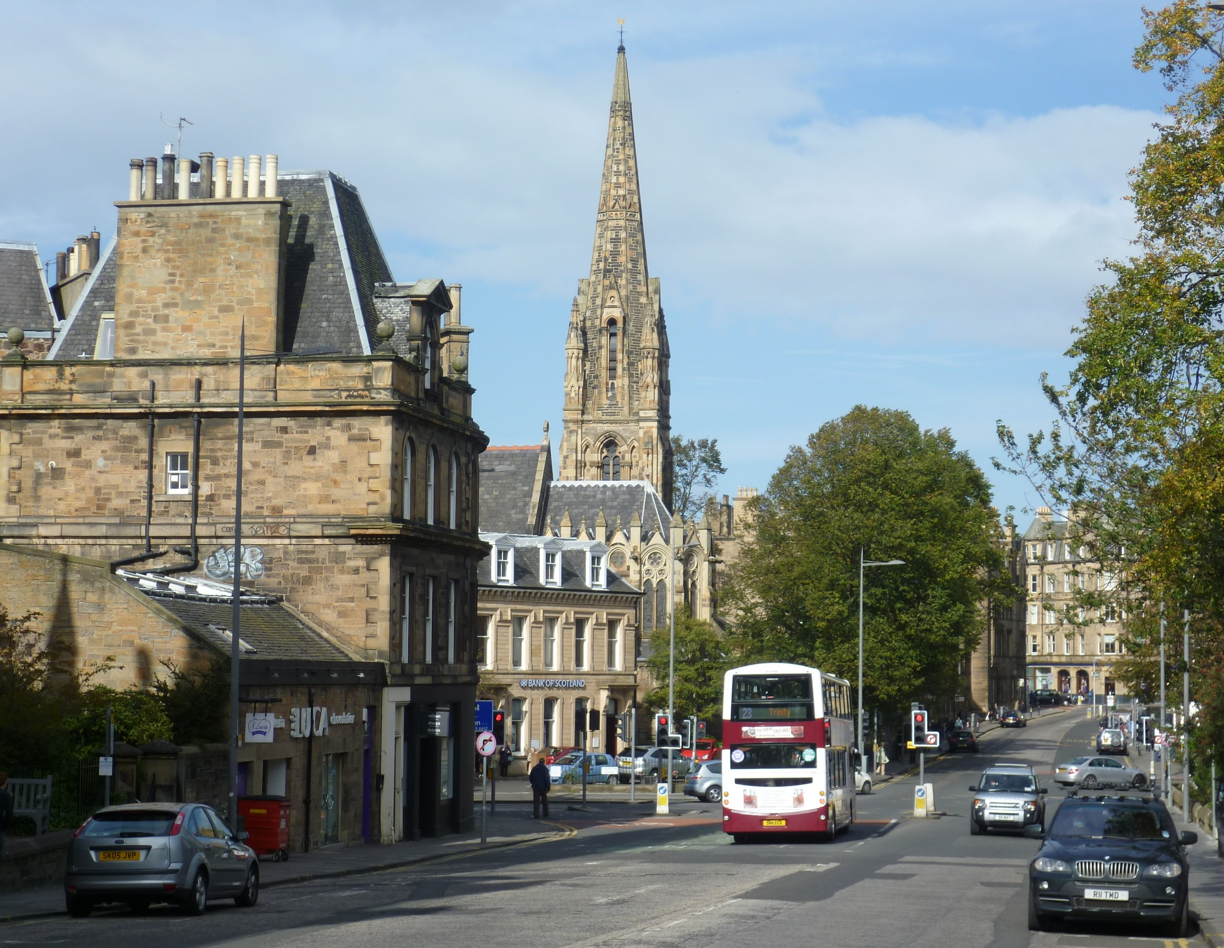 Burghmuirhead, Morningside Edinburgh. The north end of Burghmuirhead where it terminates at Holy Corner.